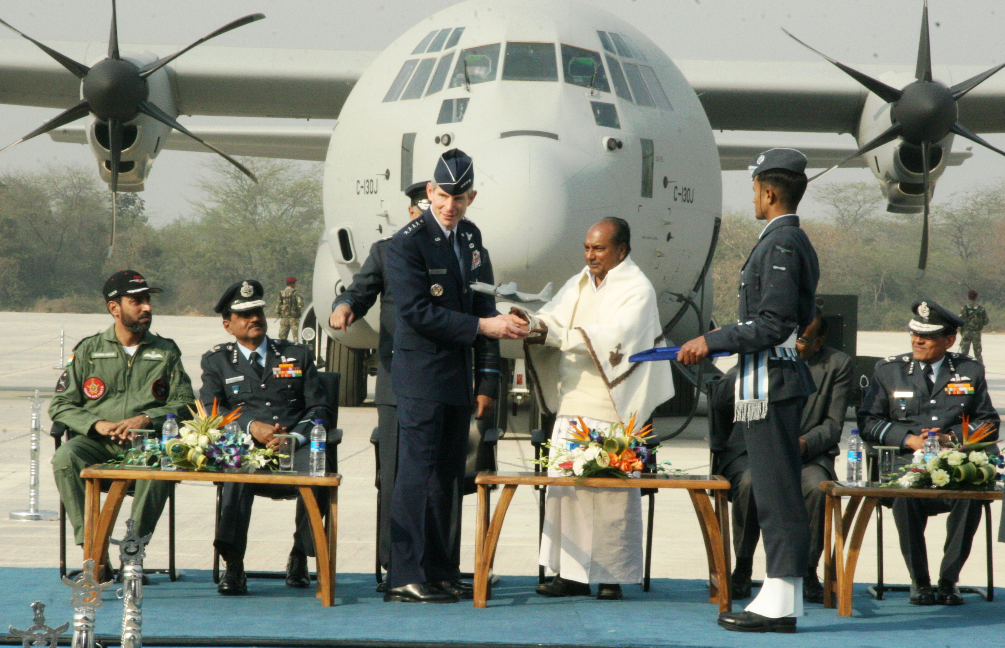 Air Force Chief of Staff Gen. Norton Schwartz presents a model of the Lockheed Martin C-130J Super Hercules to Indian Defense Minister A.K. Antony (center) at a ceremony Feb. 5, 2011, at Hindon Air Force Station near New Delhi, India. The Indian Air Force inducted the first of six C-130Js aircraft into its mobility fleet.